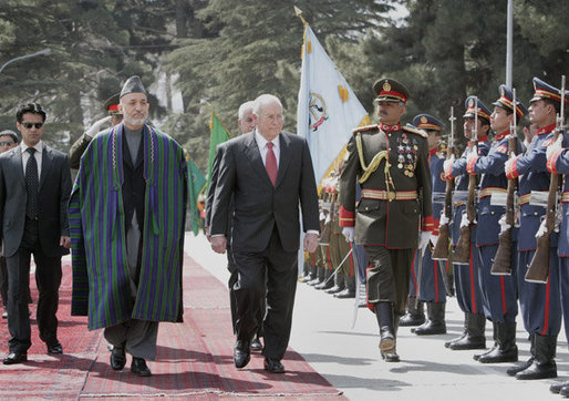 Dick Cheney and Hamid Karzai in Kabul, Afghanistan